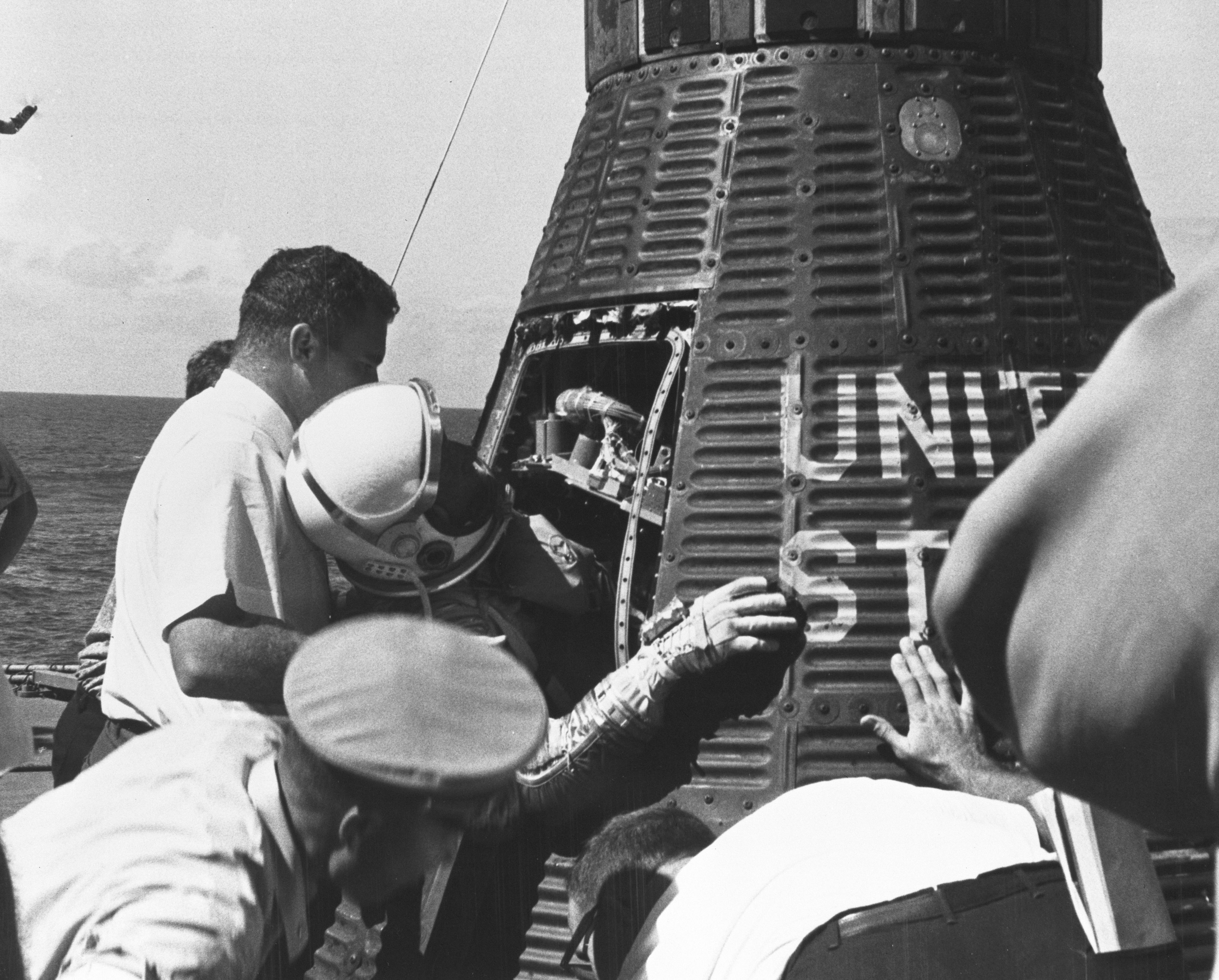 Close up view of the Mercury-Atlas 8 (MA-8) Astronaut Walter Schirra being removed from his Sigma 7 capsule by Navy personnel.